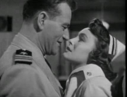 Screenshot of Patricia Neal and John Wayne from the film Operation Pacific